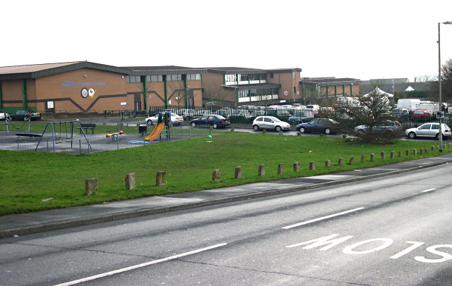 Tamarside Community College Tamarside is a modern secondary school in the west of Plymouth.